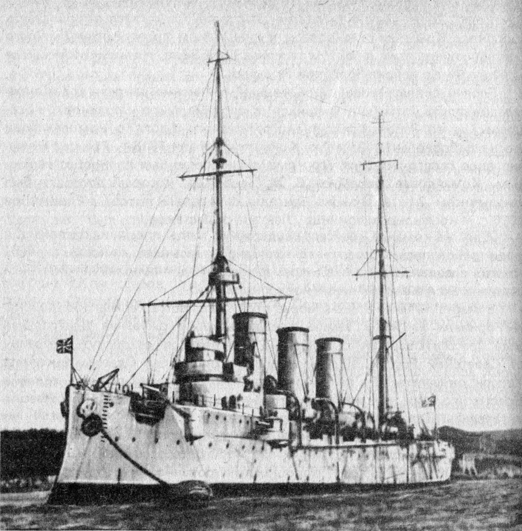 Cruiser Komintern.